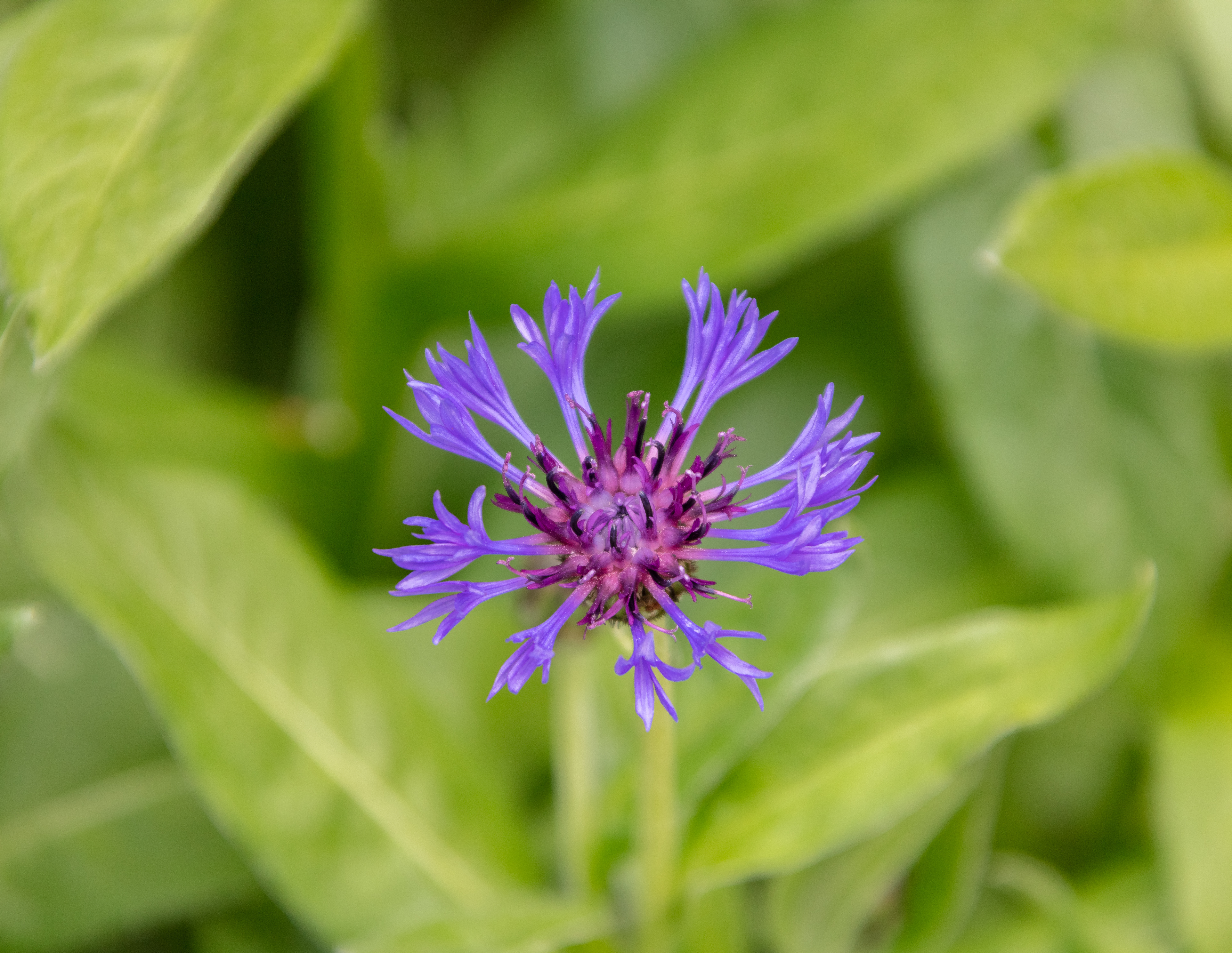 Perennial cornflower (Centaurea montana), Riedergarten, Rosenheim, Germany